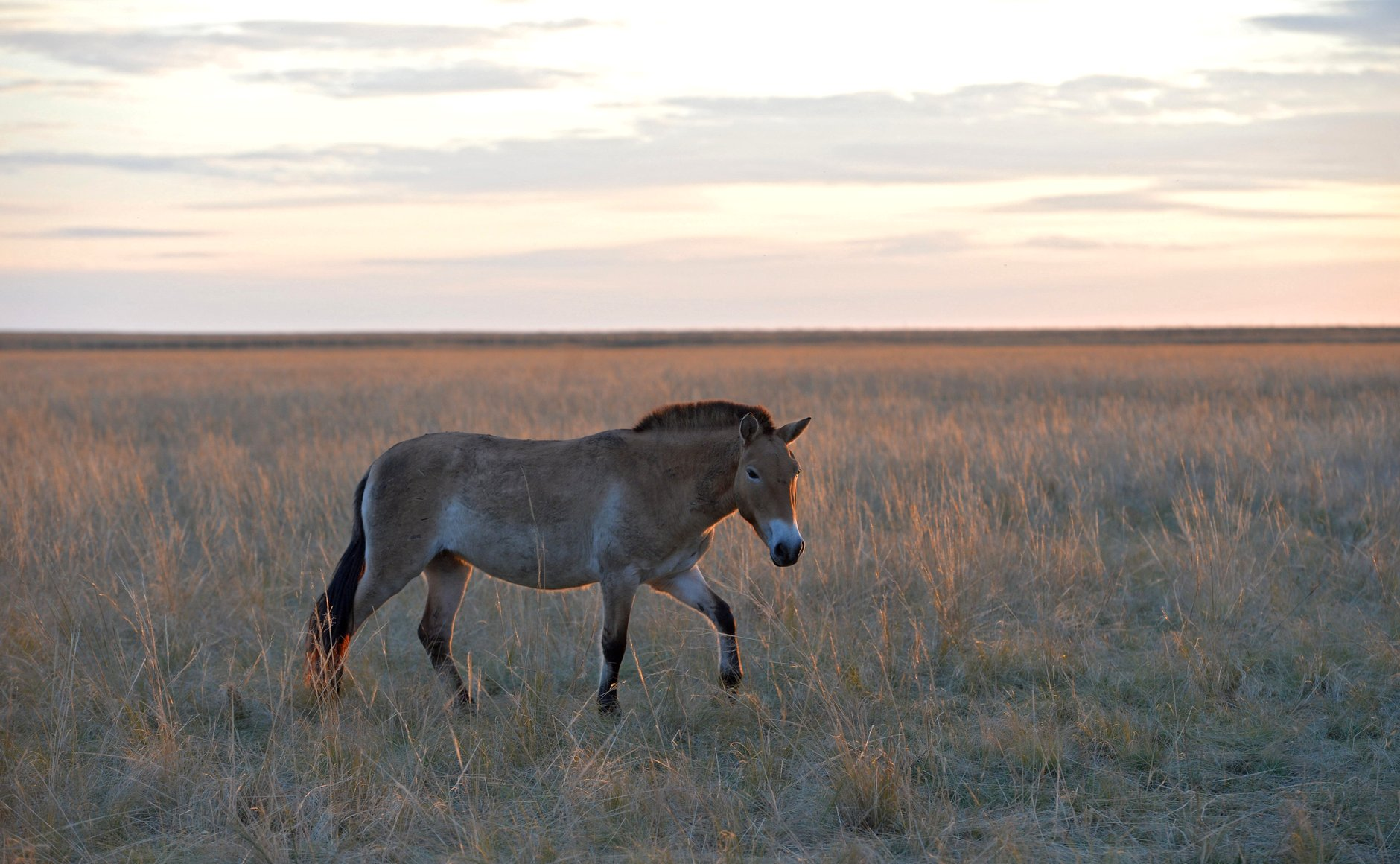 A Przewalski's Horse at the Orenburg Nature Reserve, Russian Federation.